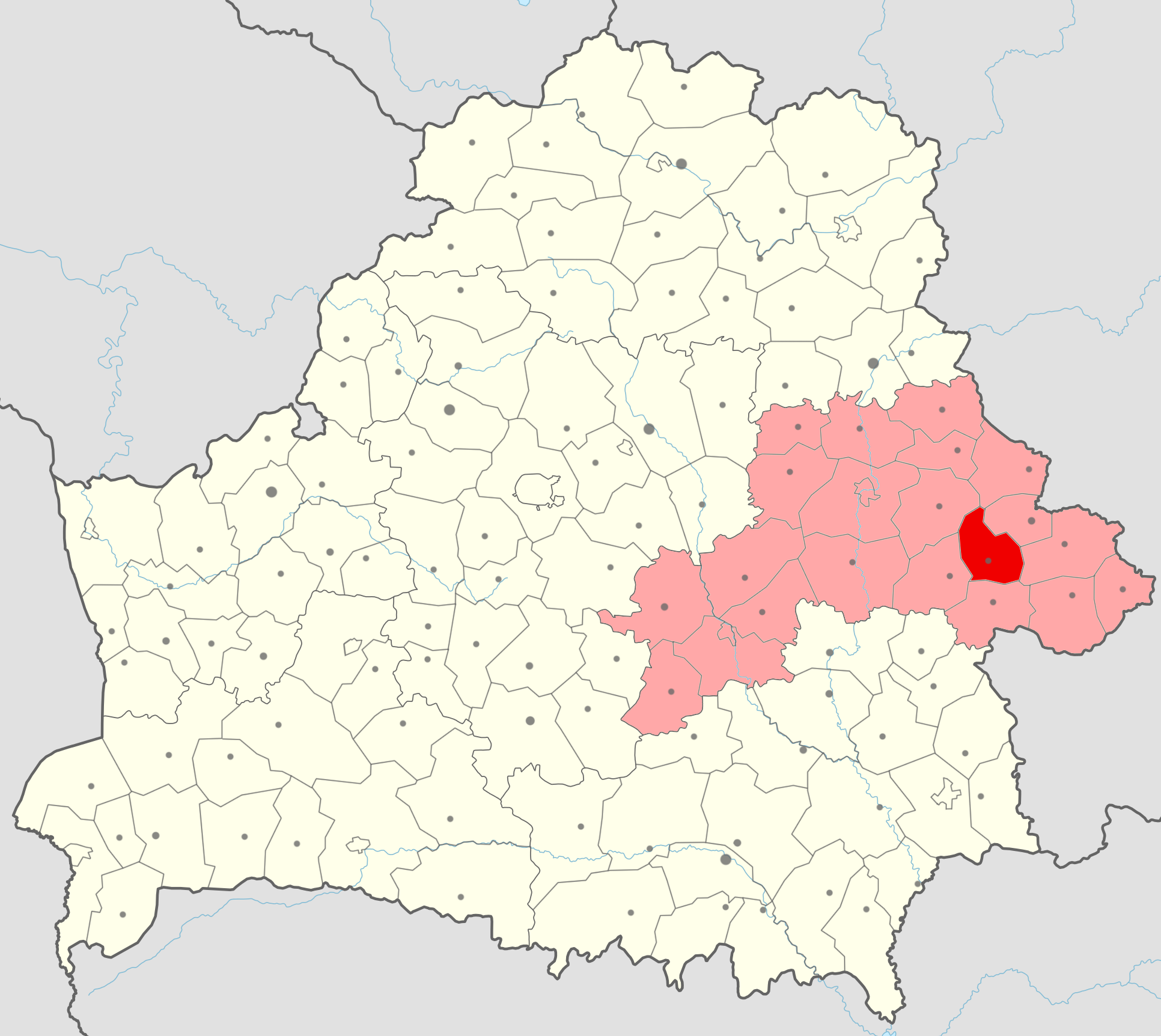 Location of Čerykaŭski rajon (red) in Mahilioŭskaja voblasć (light red) in Belarus.